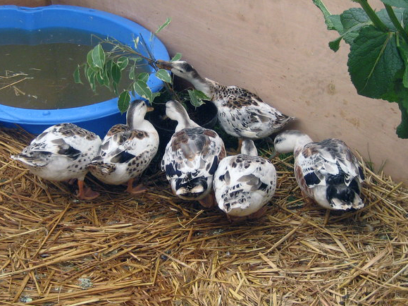 Miniature Silver Appleyard ducks (female), photographed by Oast House Archive, 14 July 2007